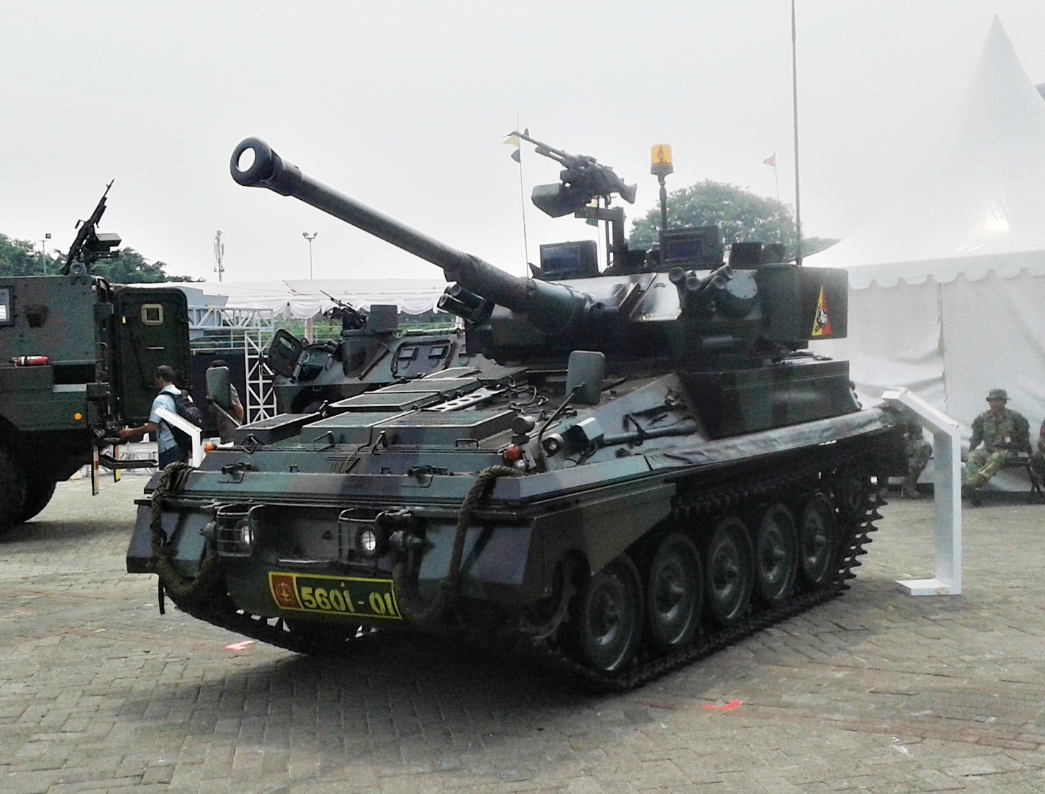 Scorpion tank on IIMS